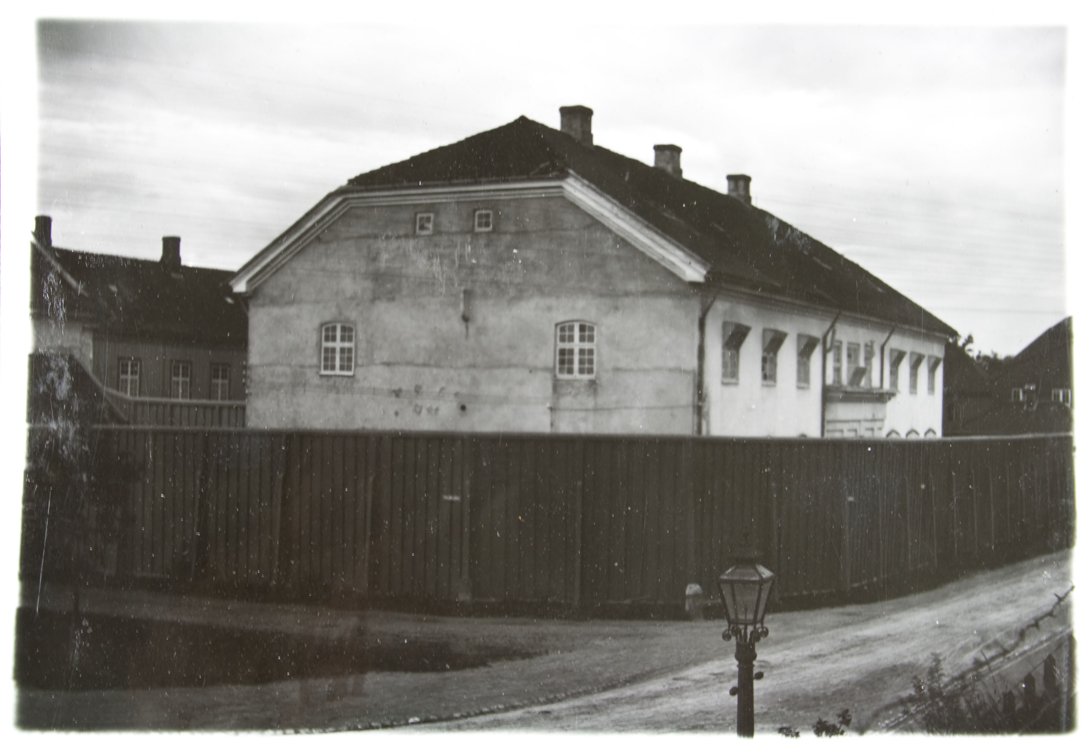 Slaveriet ved Skansen. Bildet er fra slutten av 1800-tallet.